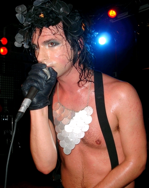 Ola Salo, The Ark concert in Prague